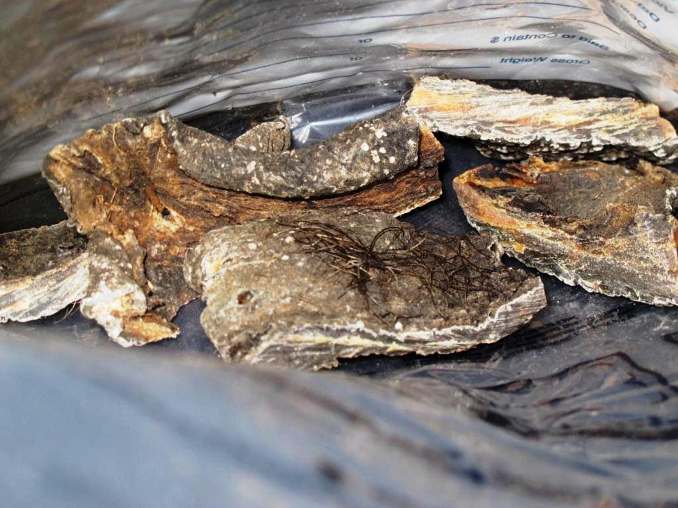 May 6 - May 12, 2013: LOS ANGELES - U.S. Customs and Border Protection officers intercepted and seized nearly half a pound of elephant meat and a dead primate at the International Mail Facility. They also seized 387 snake, lizard and crocodile skin handbags from a passenger arriving from Nigeria at the Los Angeles International Airport (LAX). Photos by: Jaime Ruiz